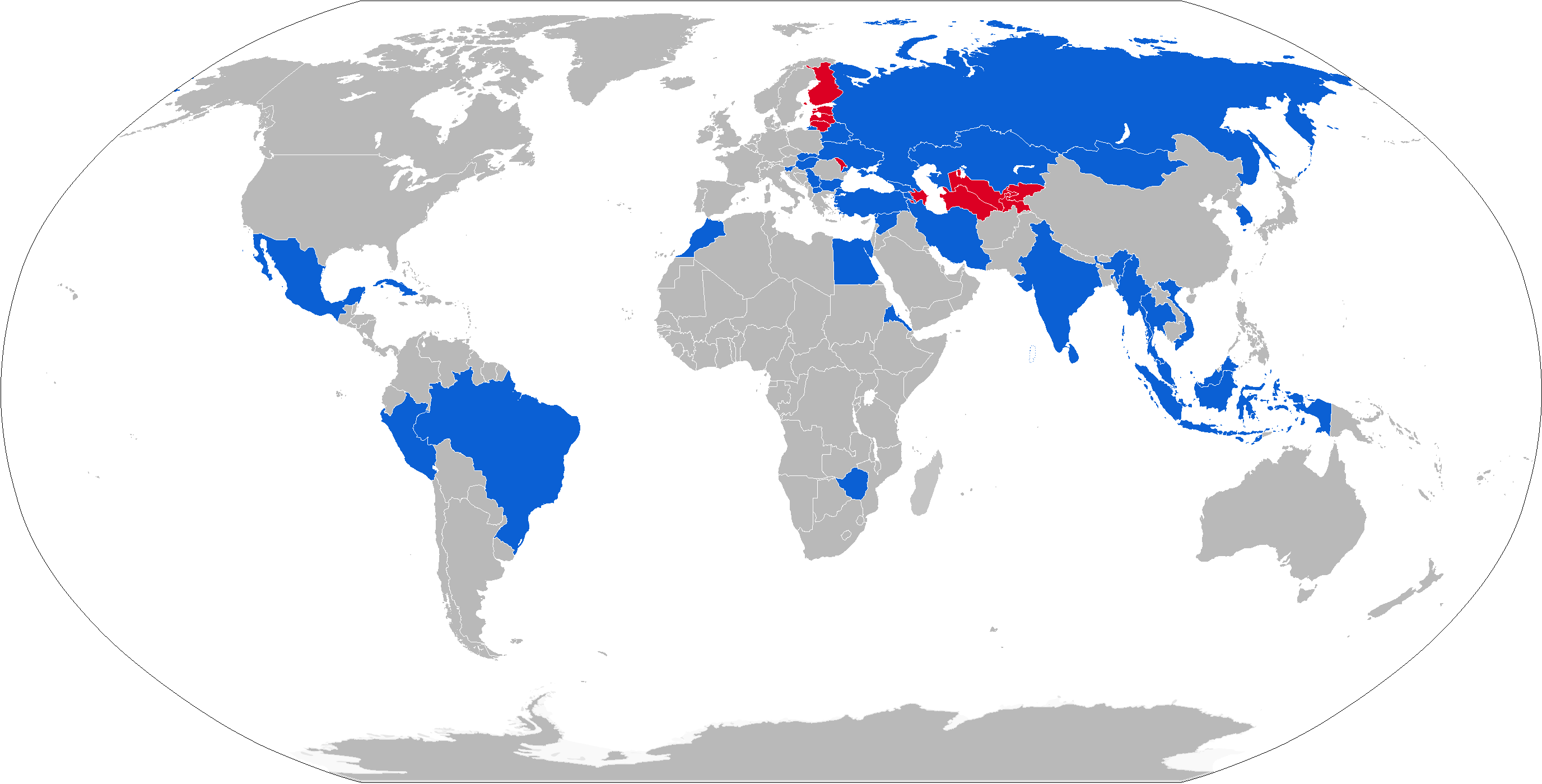 Map with SA-18 operators in blue and former operators in red